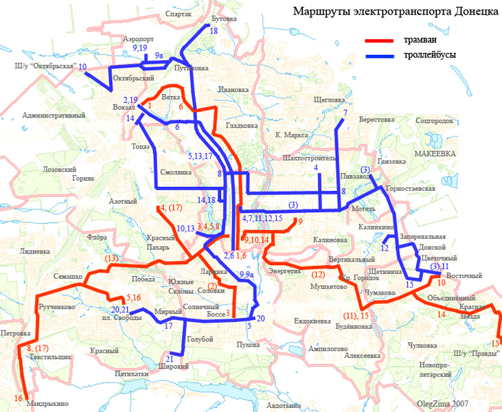 map of tram & trolleybus routes of Donetsk city (Ukraine)